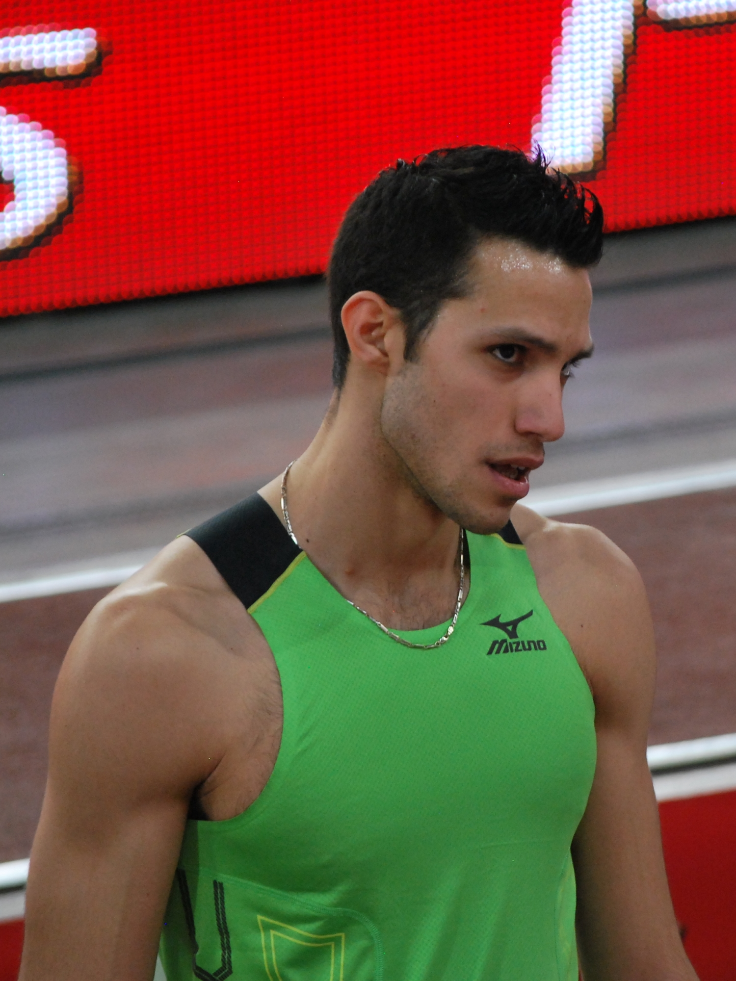 Pedros Cup 2015 Łódź, Konstadinos Filippidis, pole vaulter from Greece